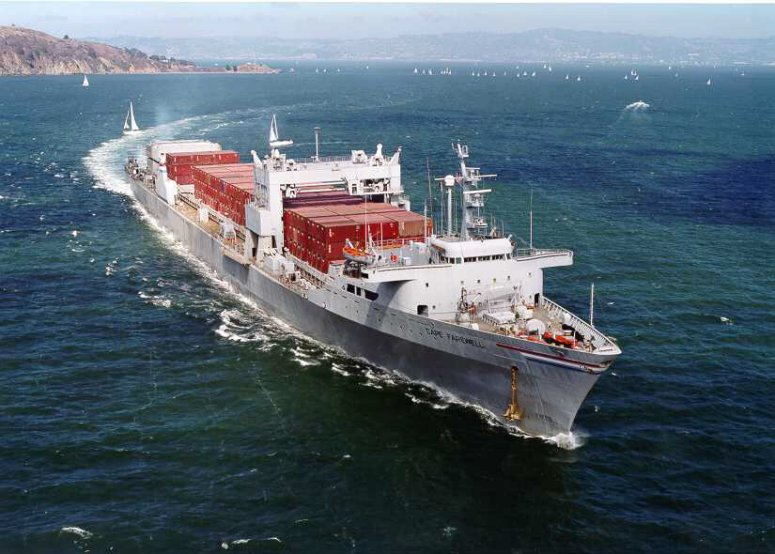 SS Cape Farewell (AK-5073) underway, date unknown. Sailing under the Template:Golden Gate Bridge in San Francisco US Maritime Administration photo.